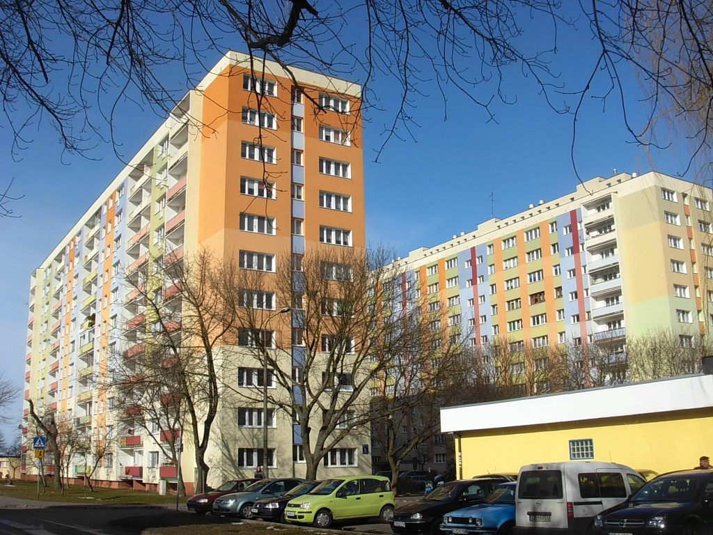 Saint Joseph church in Bydgoszcz